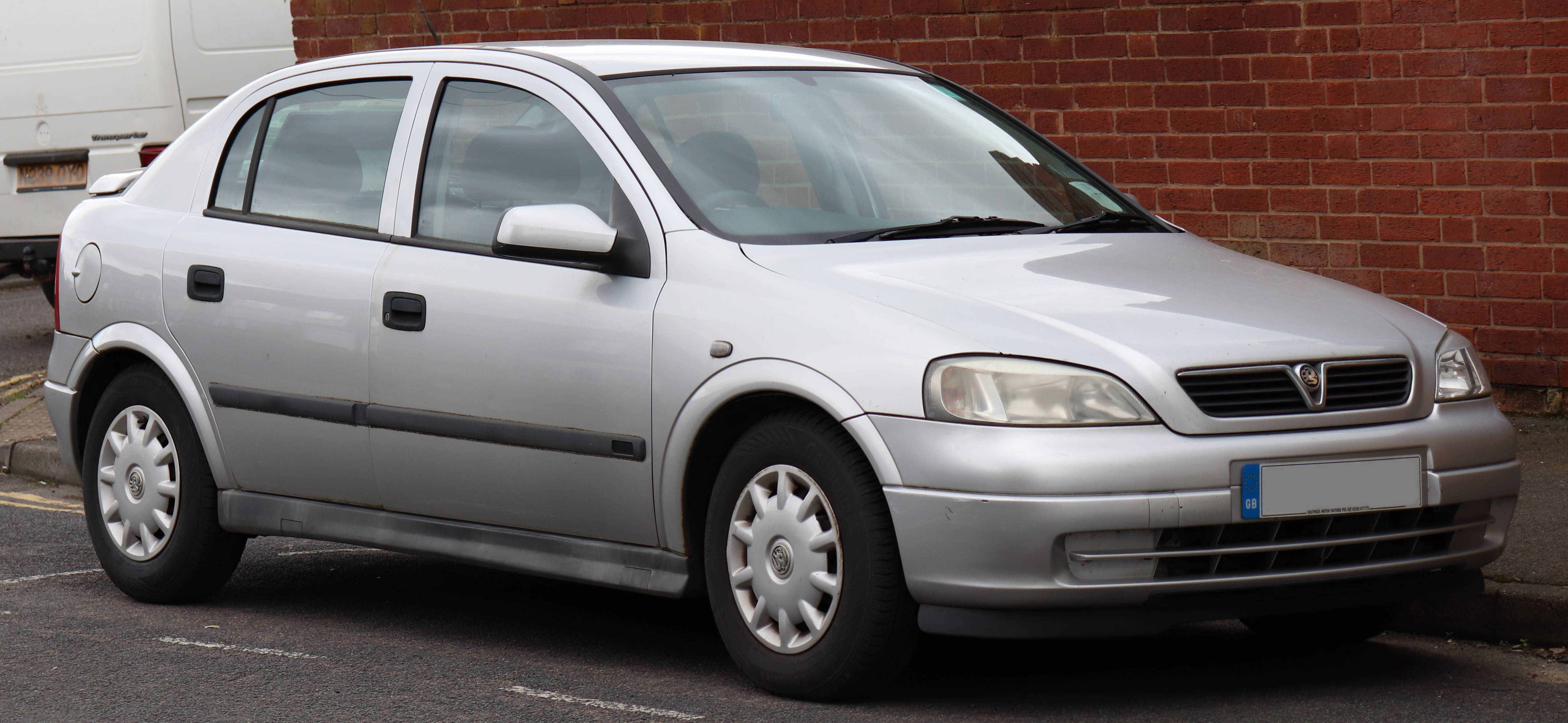 2004 Vauxhall Astra LS DTi Eco 16V 1.7 Front Taken in Warwick